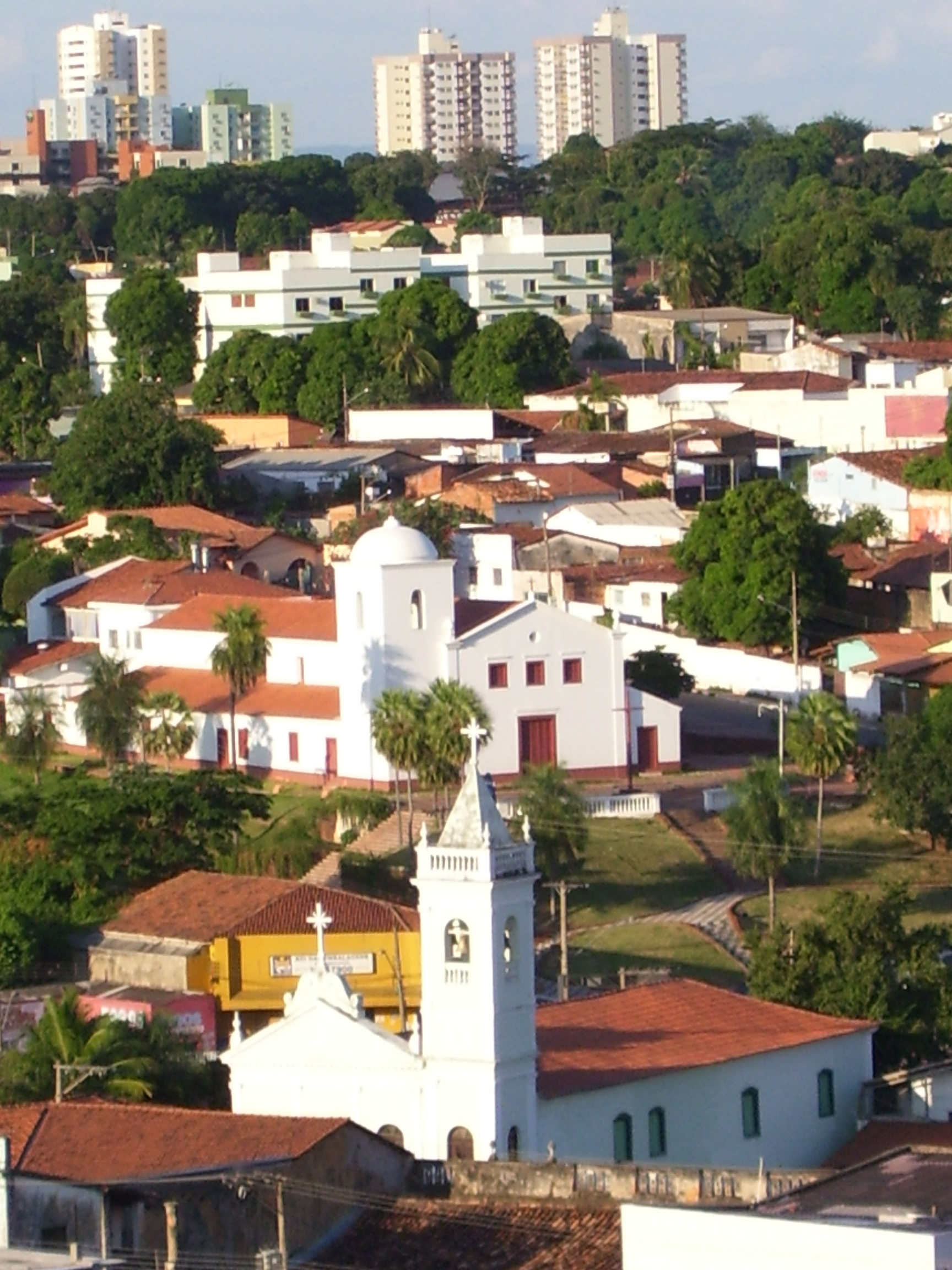 View of Cuiabá, from the City Hall. In the front, the church of "Nosso Senhor dos Passos", behind, the church of Our Lady of the Rosary and the Saint Benedict's Chapel, Cuiabá, Mato Grosso, Brazil.